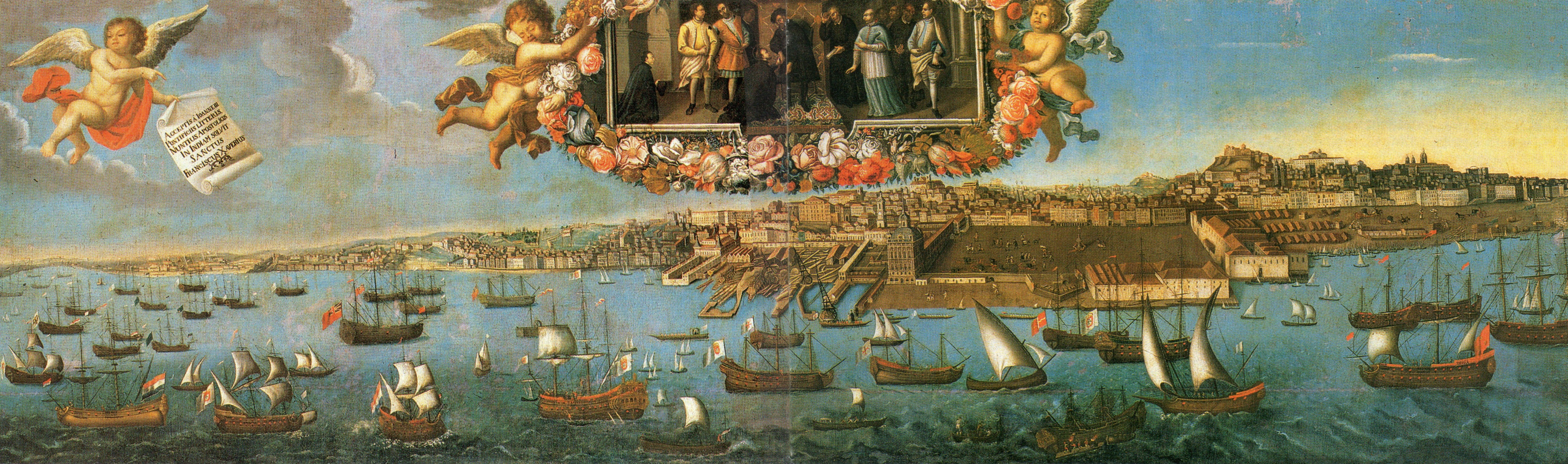 Panoramic view of Lisbon circa 1730 by an unkoun artist.